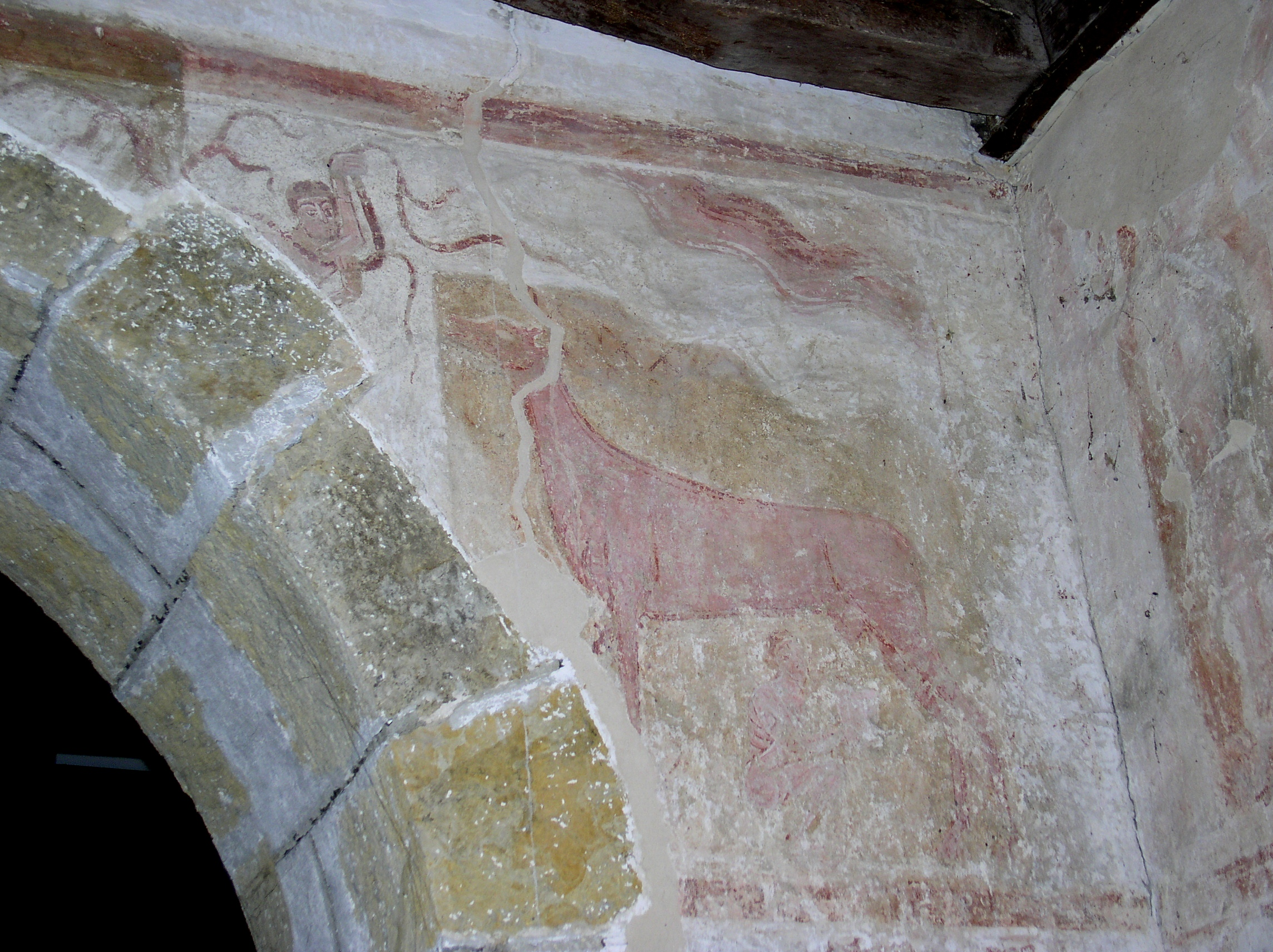 Church of England parish church of St Botolph, Hardham, West Sussex, England: painting on east wall of the nave showing the labours of Adam and Eve.